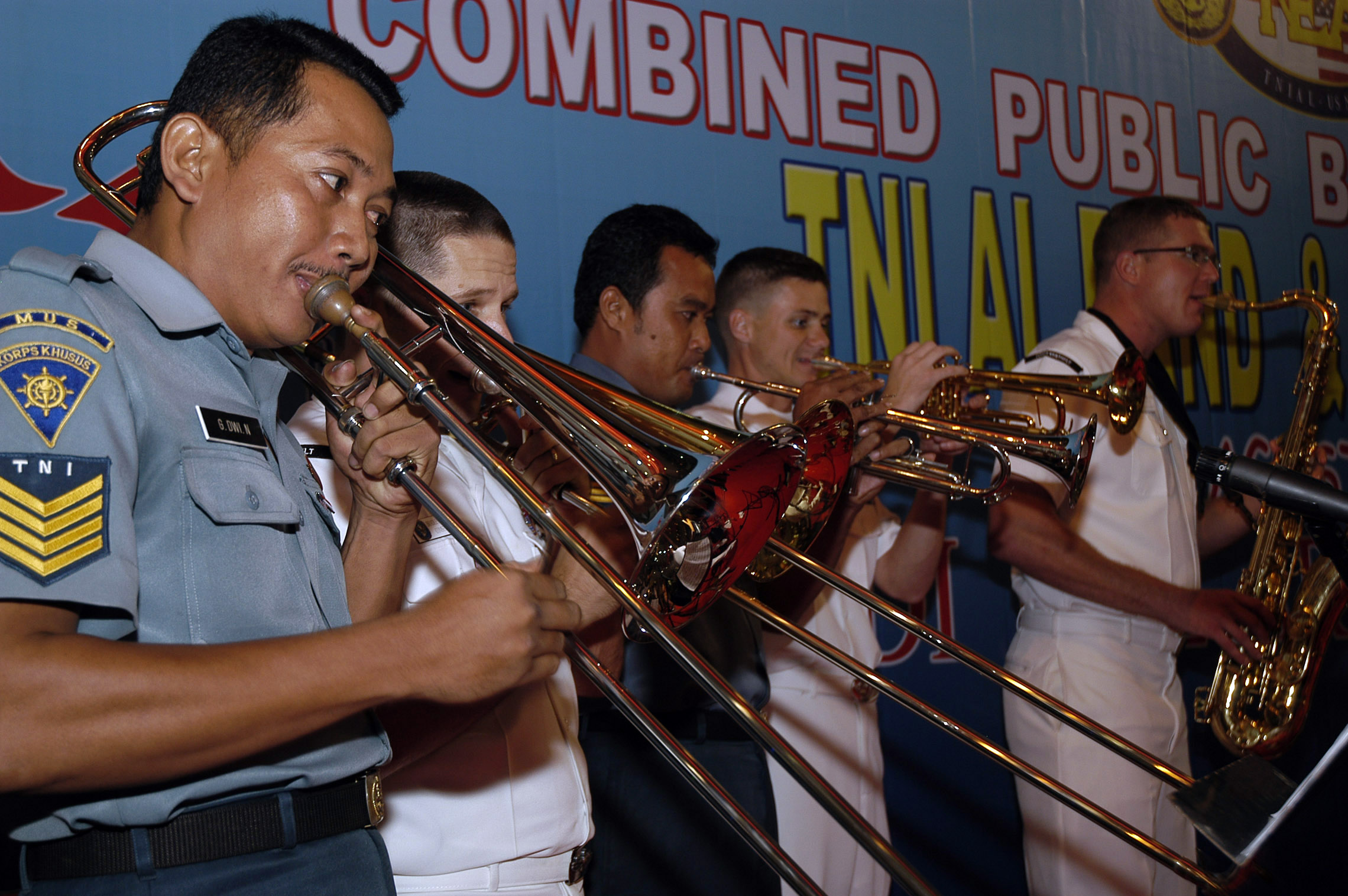 JAKARTA, Indonesia (Aug. 26, 2009) The brass section of the Indonesian TNI Navy Band joins the U.S. 7th Fleet Rock Band, Orient Express‚ during a joint concert at Artha Gading Mall. The bands played to a crowd of hundreds during a Cooperation Afloat Readiness and Training (CARAT) Indonesia 2009 community service project. CARAT is a series of bilateral exercises held annually in Southeast Asia to strengthen relationships and enhance the operational readiness of the participating forces. (U.S. Navy photo by Lt. Mike Morley/Released)